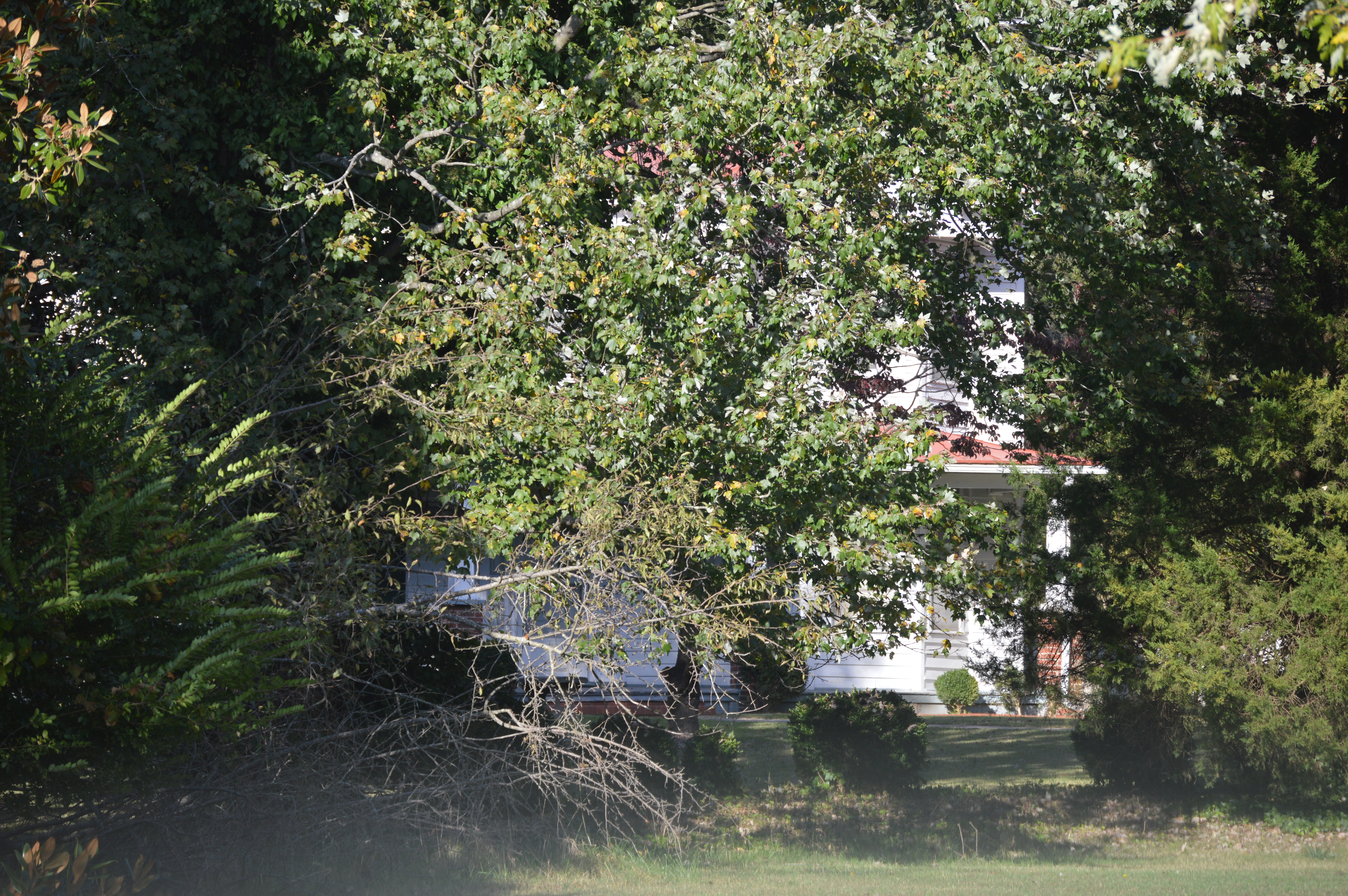 View through the trees of the house at Kippax Plantation, a historical archaeological site located at the northern end of Bland Avenue in Hopewell, Virginia, United States. The plantation is listed on the National Register of Historic Places.